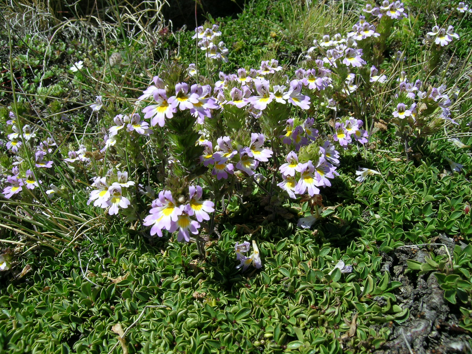 Euphrasia alpina Zermatt, beneath Gornergrat (Kanton Wallis, Switzerland), 2800 m Author: Roland Teuscher – own photograph Date: 2.08.06